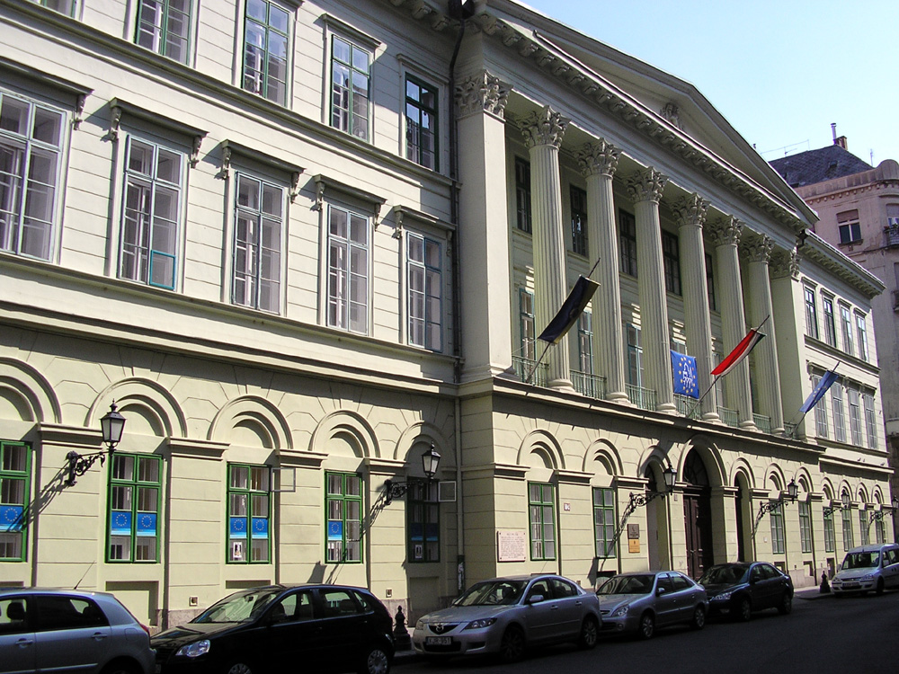 The main facade of the County Hall, Budapest, Hungary